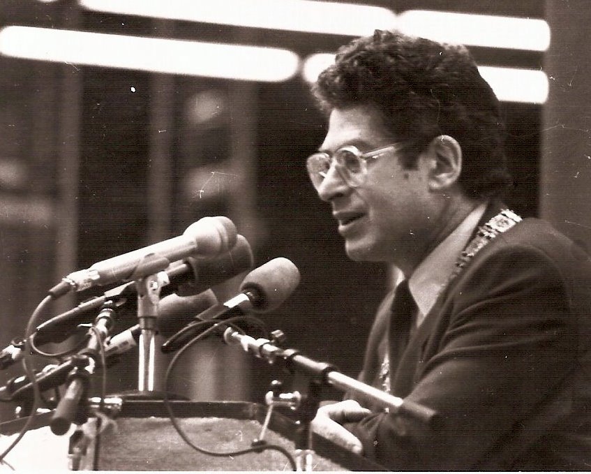 Ed van Thijn, mayor of Amsterdam, at the opening of the WTC-building